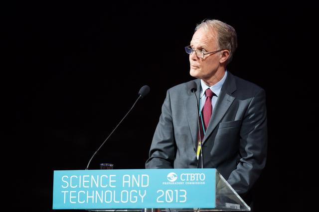 Welcome remarks by Ambassador Nils Daag, Swedish Permanent Representative to the UN Vienna. Sweden co-sponsored the event.